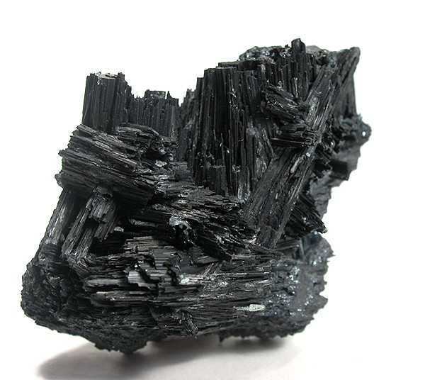 Betekhtinite Locality: Dzhezkazgan, Zhezqazghan Oblysy (Dzezkazgan Oblast'; Dzhezkazgan Oblast'; Djezkazgan Oblast'; Jezkazgan Oblast'), Kazakhstan (Locality at ) A dramatic, displayable cluster of thick crystals of this rare sulfide. 5.8 x 4.7 x 2.1 cm